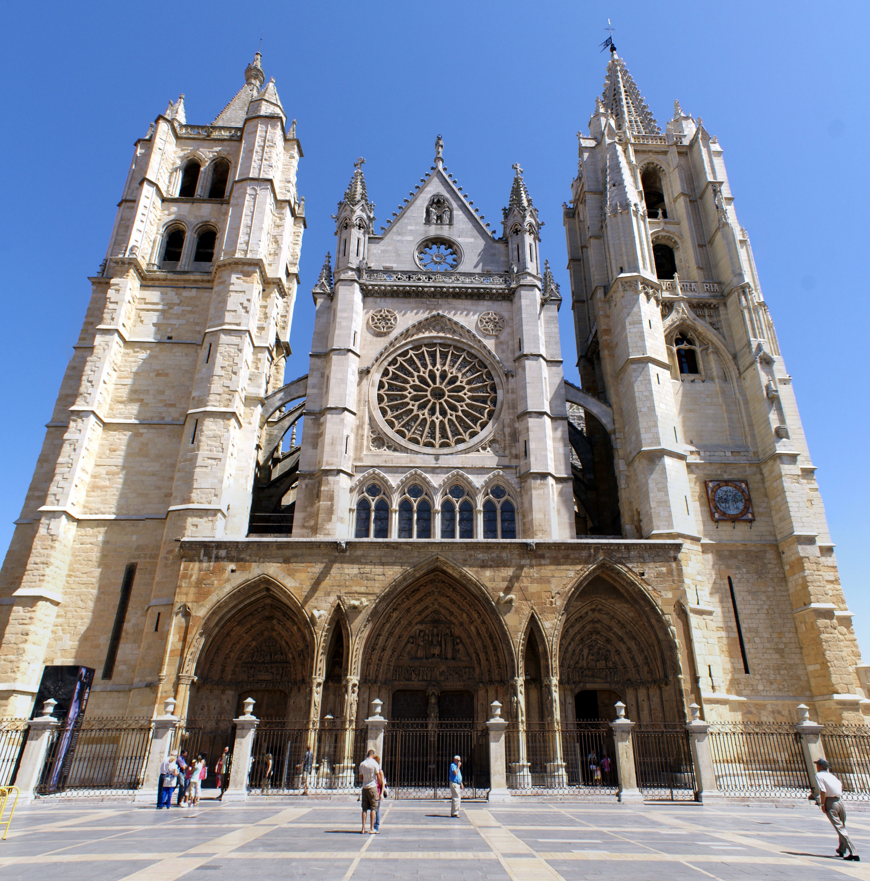 Main façade of León Cathedral, in León, Spain.